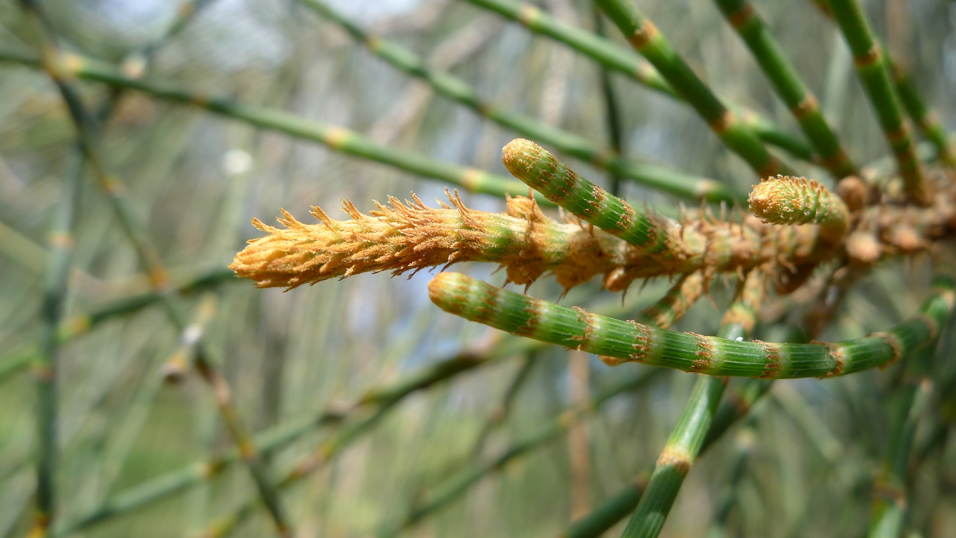 Swamp She-oak, Casuarina glauca, new shoots showing about 16 small erect teeth at each segment. Turners Flat, NSW, Australia, December 2014.